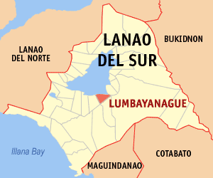 Map of the Lanao del Sur showing the location of Lumbayanague